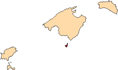 Location of Cabrera